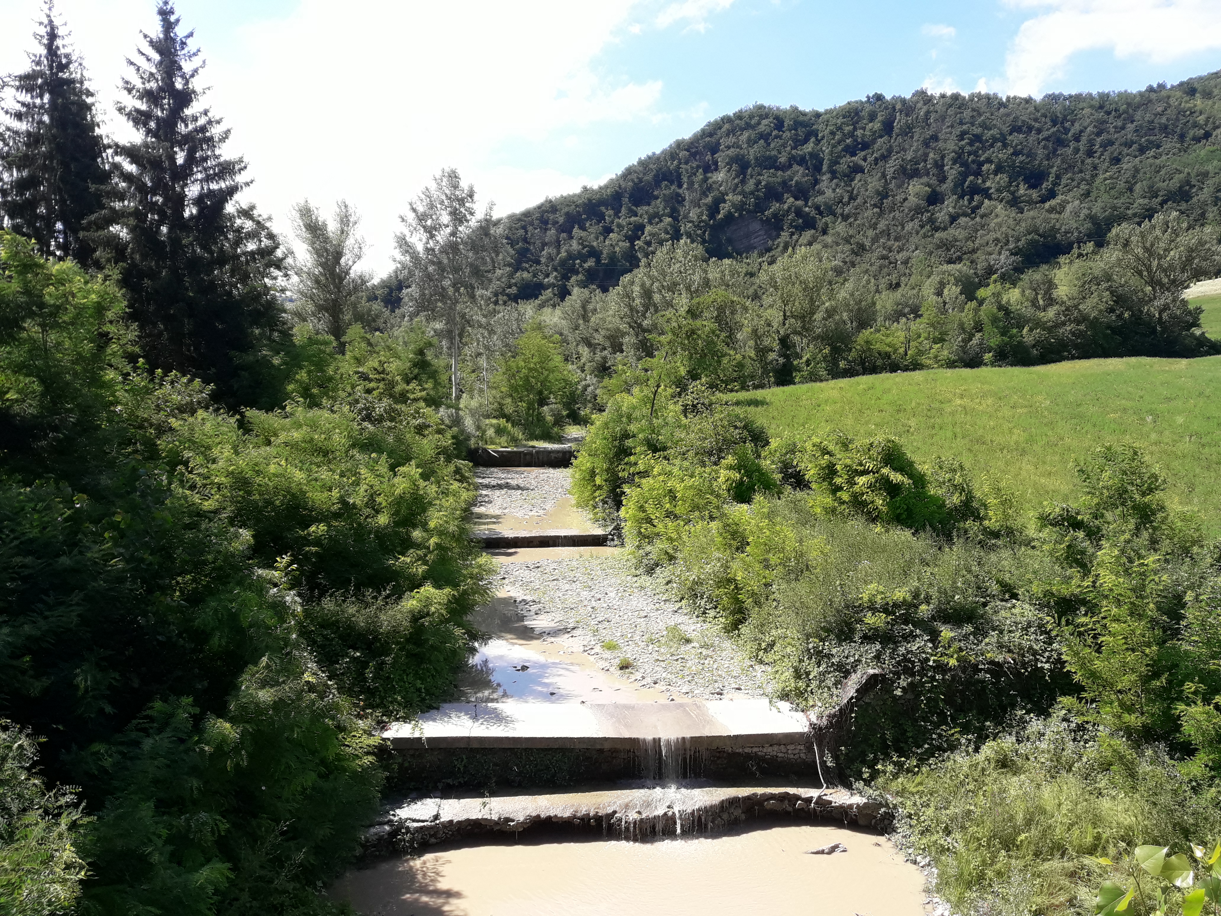 The river Chiarone at Case Gazzoli, municipality of Pianello Val Tidone, Piacenza, Italy